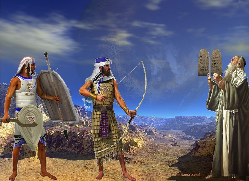 Moses,Joshua and Caleb in Mount Nebo from Jordan.3D digital art